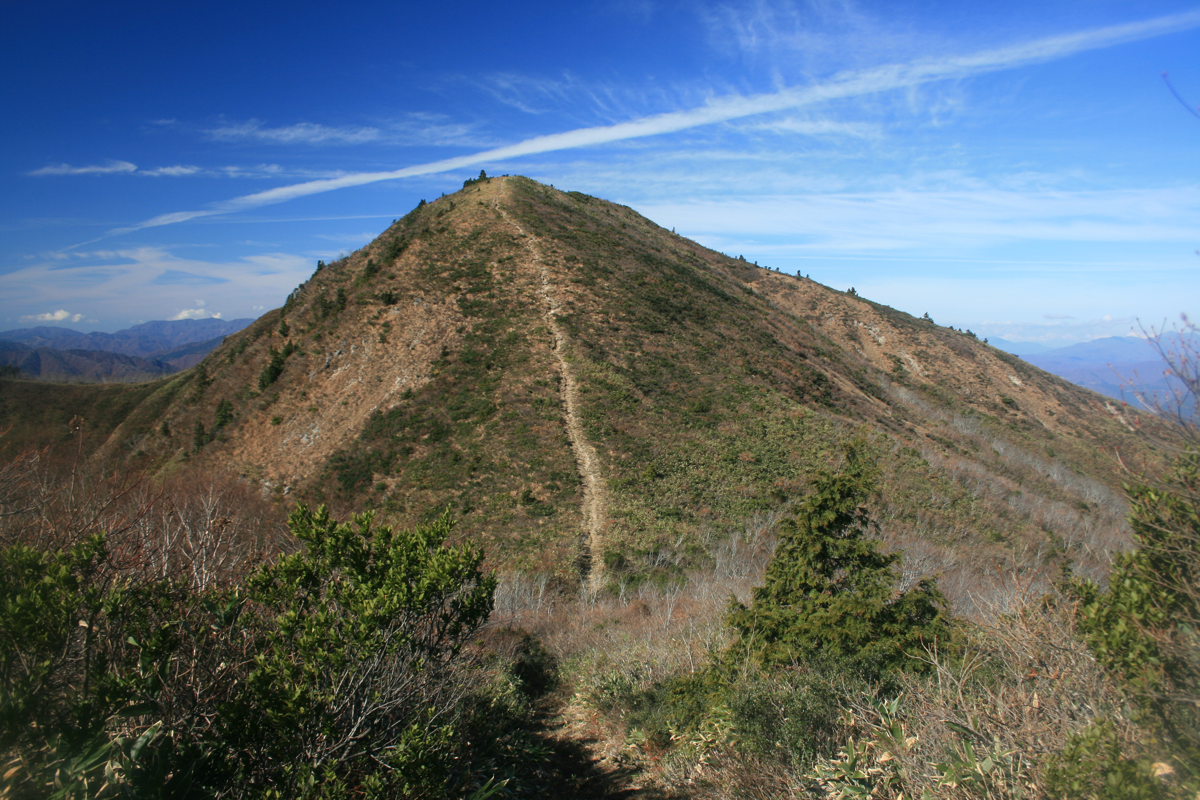 Mount_Heike_from_Mount_Igishi